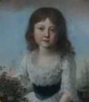 Charlotte of Saxe-Hildburghausen